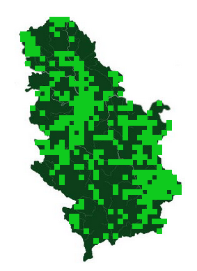 Lycaena dispar - distribution map of Serbia